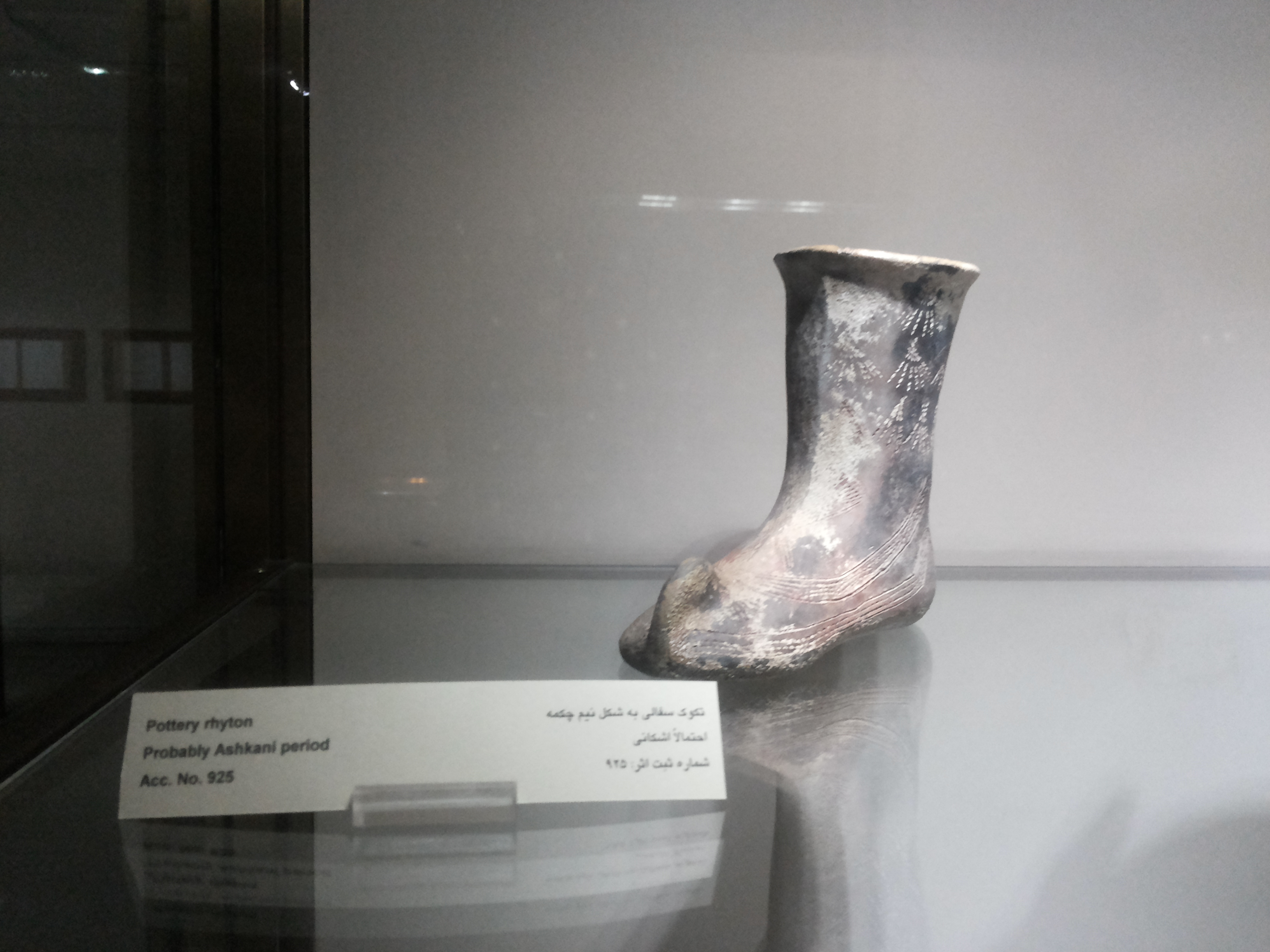 Pottery rhyton, probably from Ashkani period in Reza Abbasi museum.